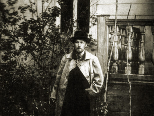 Chekhov